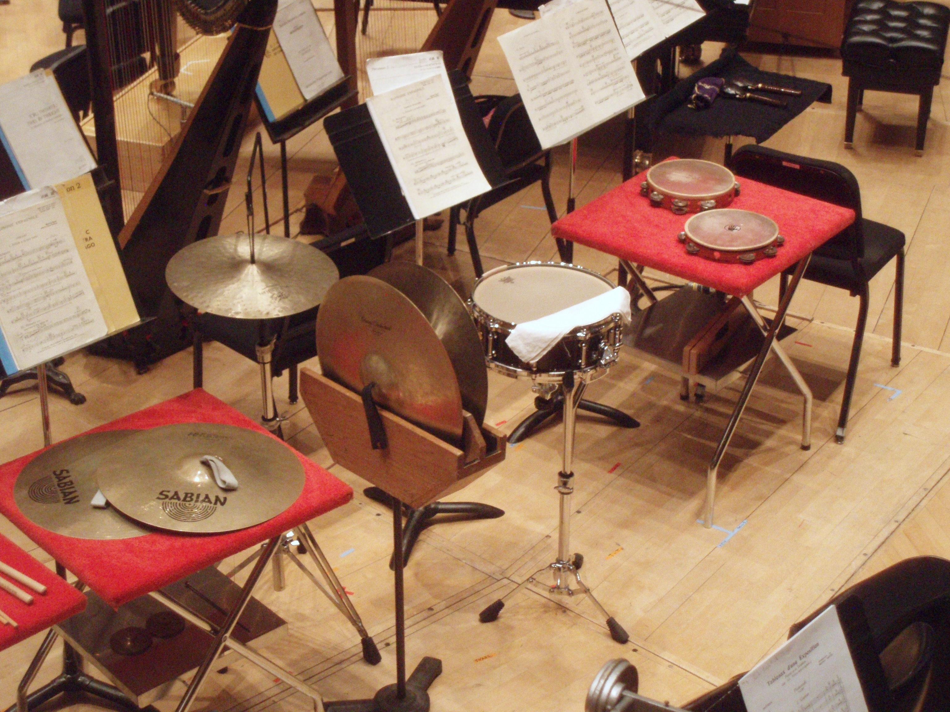 View of part of the percussion instruments from the Civic Orchestra of Chicago.